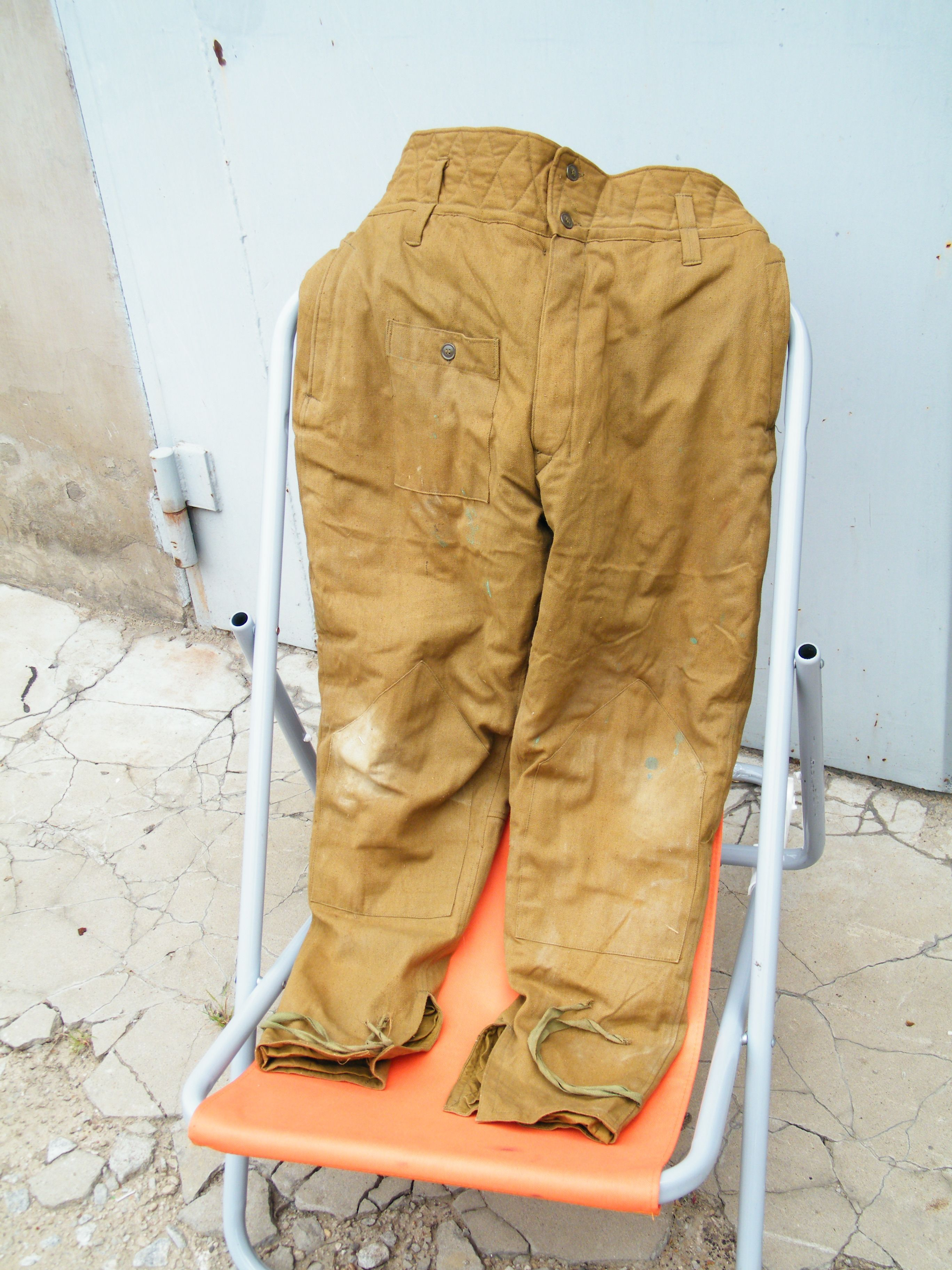 Ватные штаны